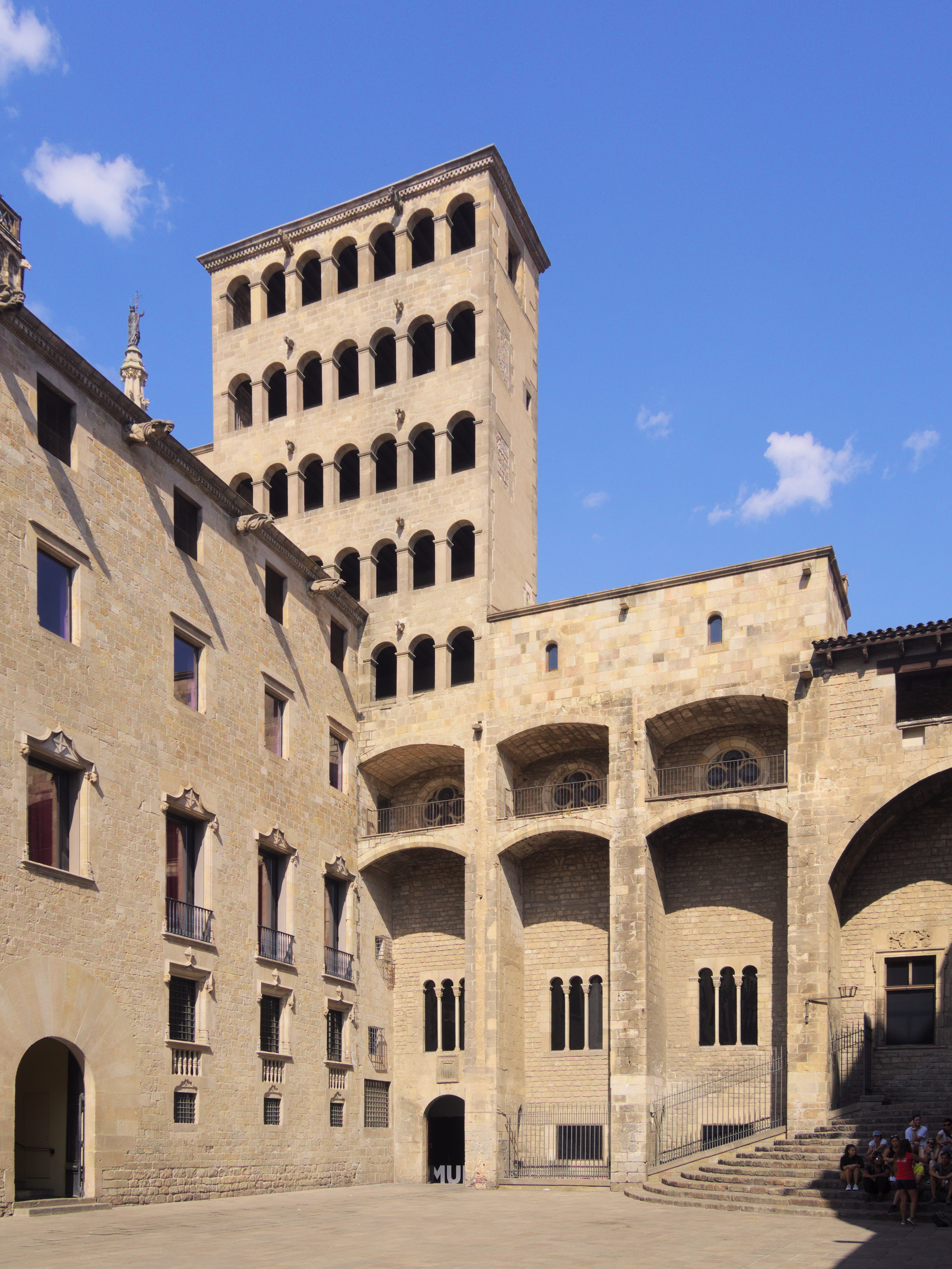 The grand palace of Barcelona as seen Plaça del Rei.